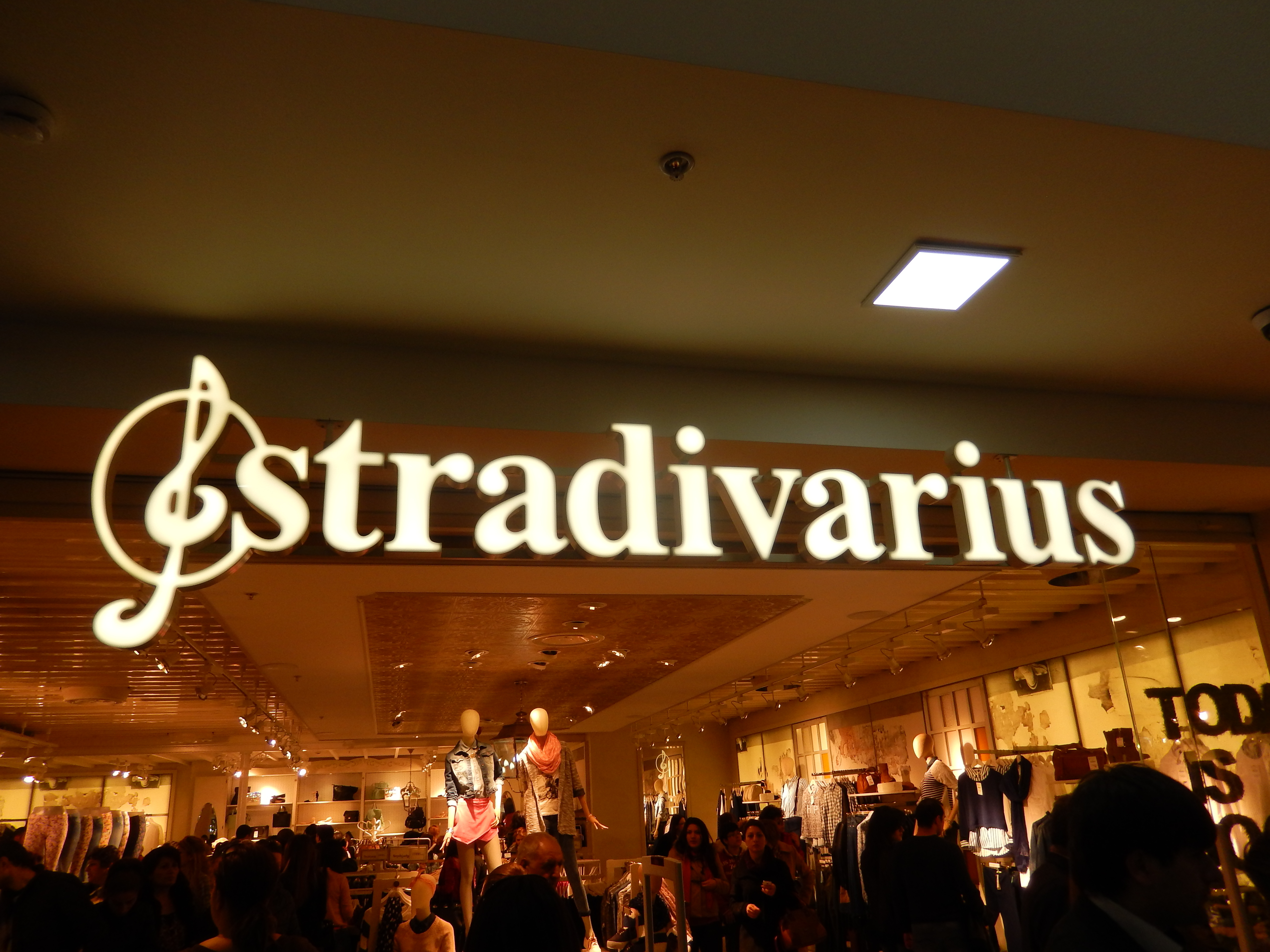 Yerevan Mall opening ceremony